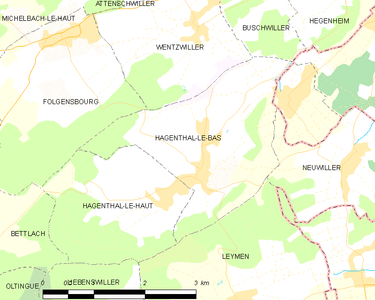 Map of French municipality